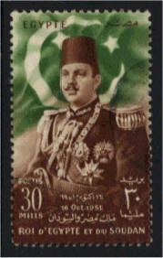 Abrogation of Anglo Egyptian treaty 16-10-1051-Farouk I King of Egypt and Sudan